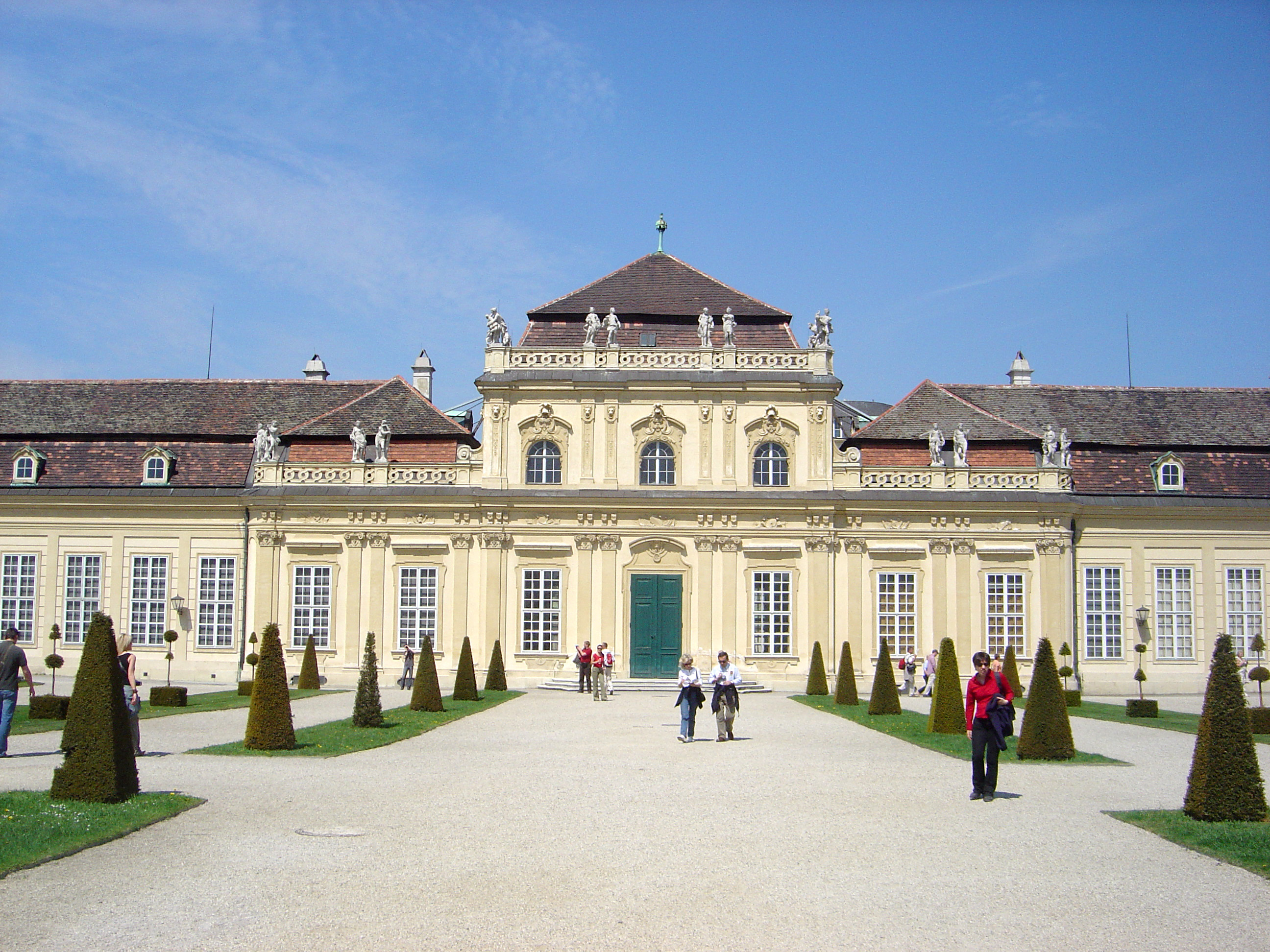 Belvedere Palace (Lower Belvedere), Vienna, Austria